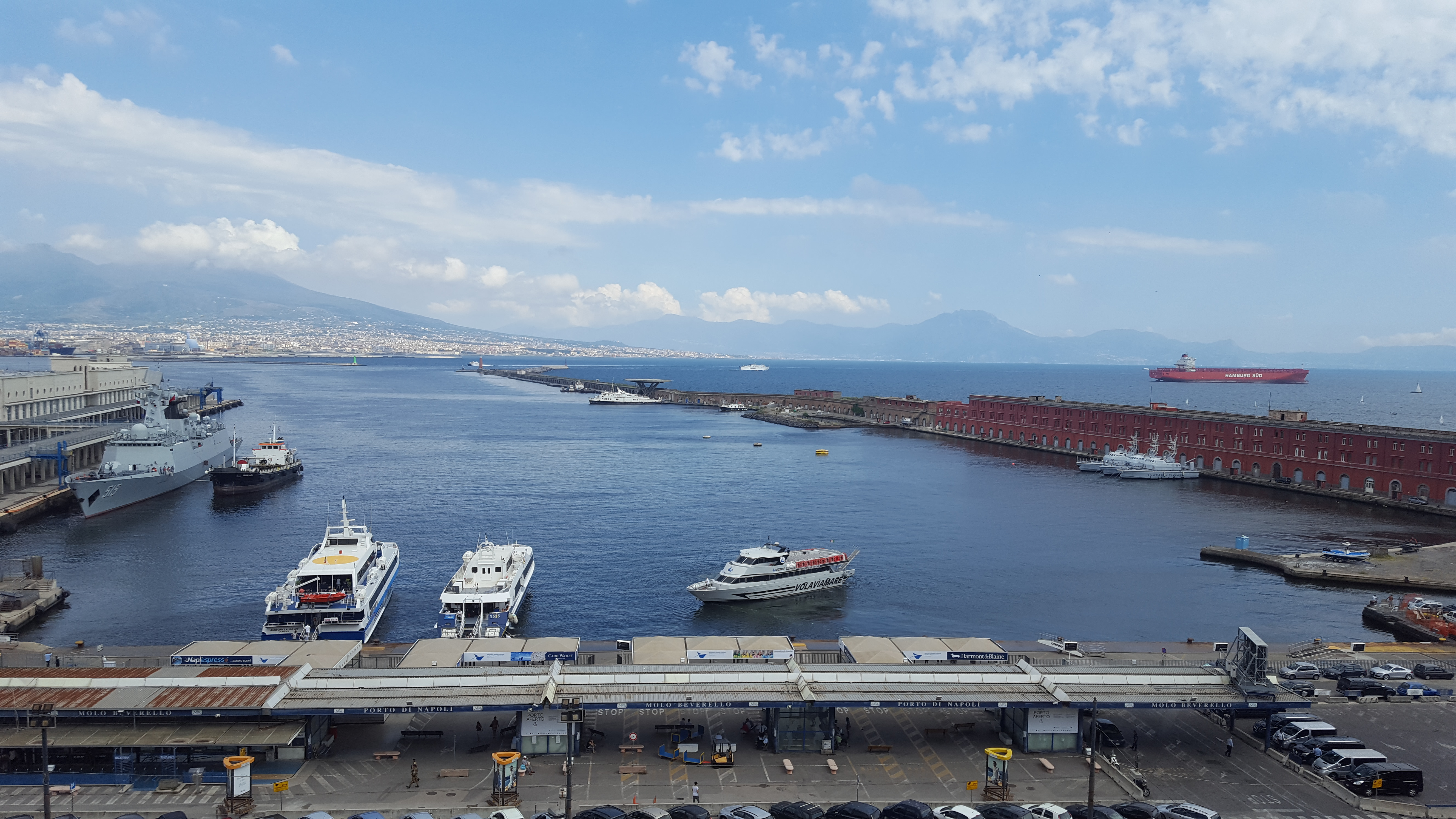 This image was taken at 3:28 pm in Naples